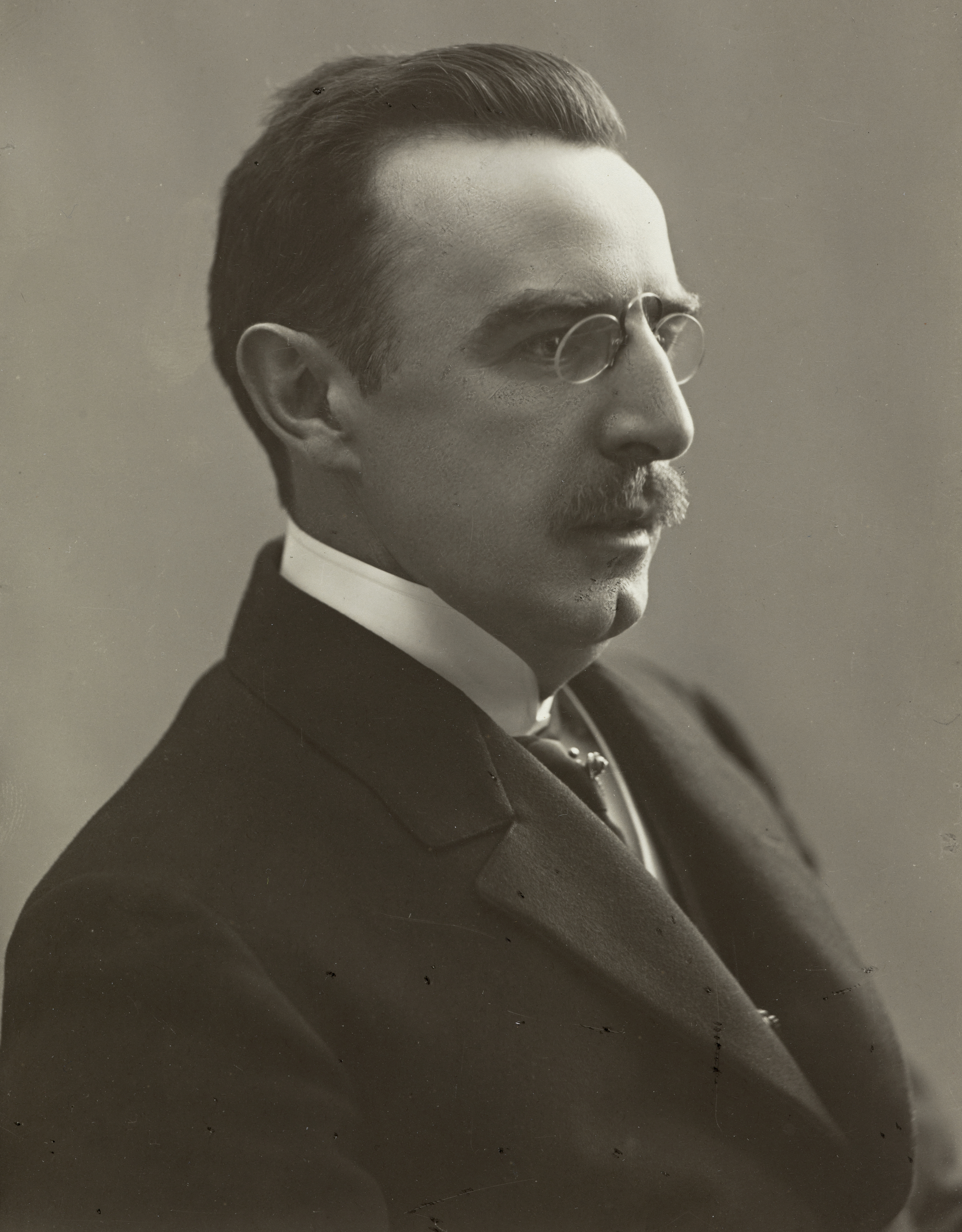 Dato / Date: ukjent / unknown Sted / Place: Norge, Oslo Fotograf / Photographer: Atelier Rude (Kristiania) Digital kopi av original / Digital copy of original: sv/hv papirpositiv, kabinettkort Eier / Owner Institution: Nasjonalbiblioteket / National Library of Norway Lenke / Link: Bildesignatur / Image Number: blds_08645